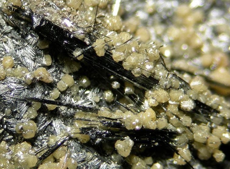 Valentinite, Pääkkönenite, Stibnite Locality: Kermesite occurrence, Dafeng, Shanglin County, Nanning Prefecture, Guangxi Zhuang Autonomous Region, China (Locality at ) Yellow Valentinite crystals together with some Stibnite needles on a Pääkkönenite matrix. Field of view 7 mm. Specimen and photo Leon Hupperichs.